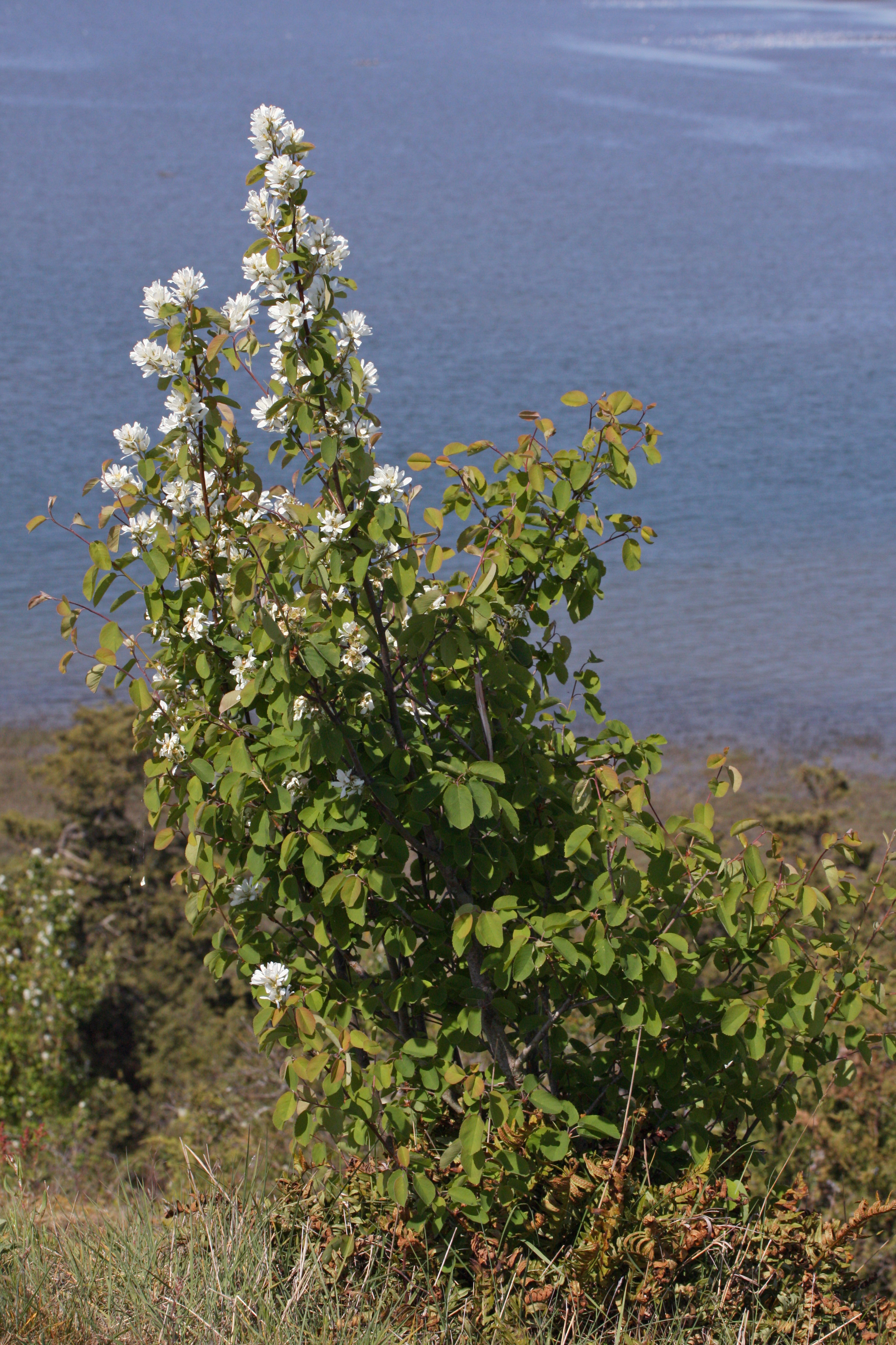 Western Serviceberry, Saskatoon Serviceberry Full Name with Authors: Amelanchier alnifolia (Nutt.) Nutt. ex M. Roemer var. semiintegrifolia (Hook.) C.L. Hitchc.